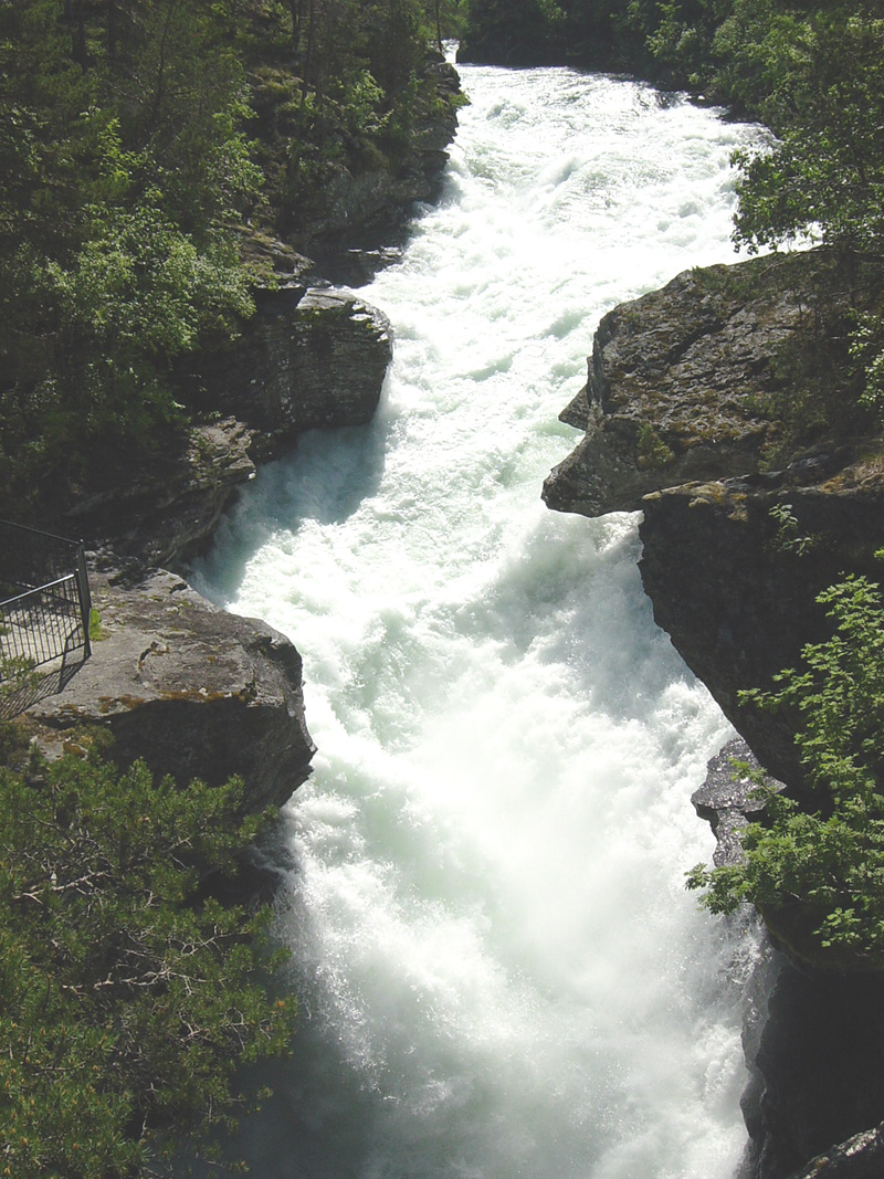 Rauma and the Slettafoss